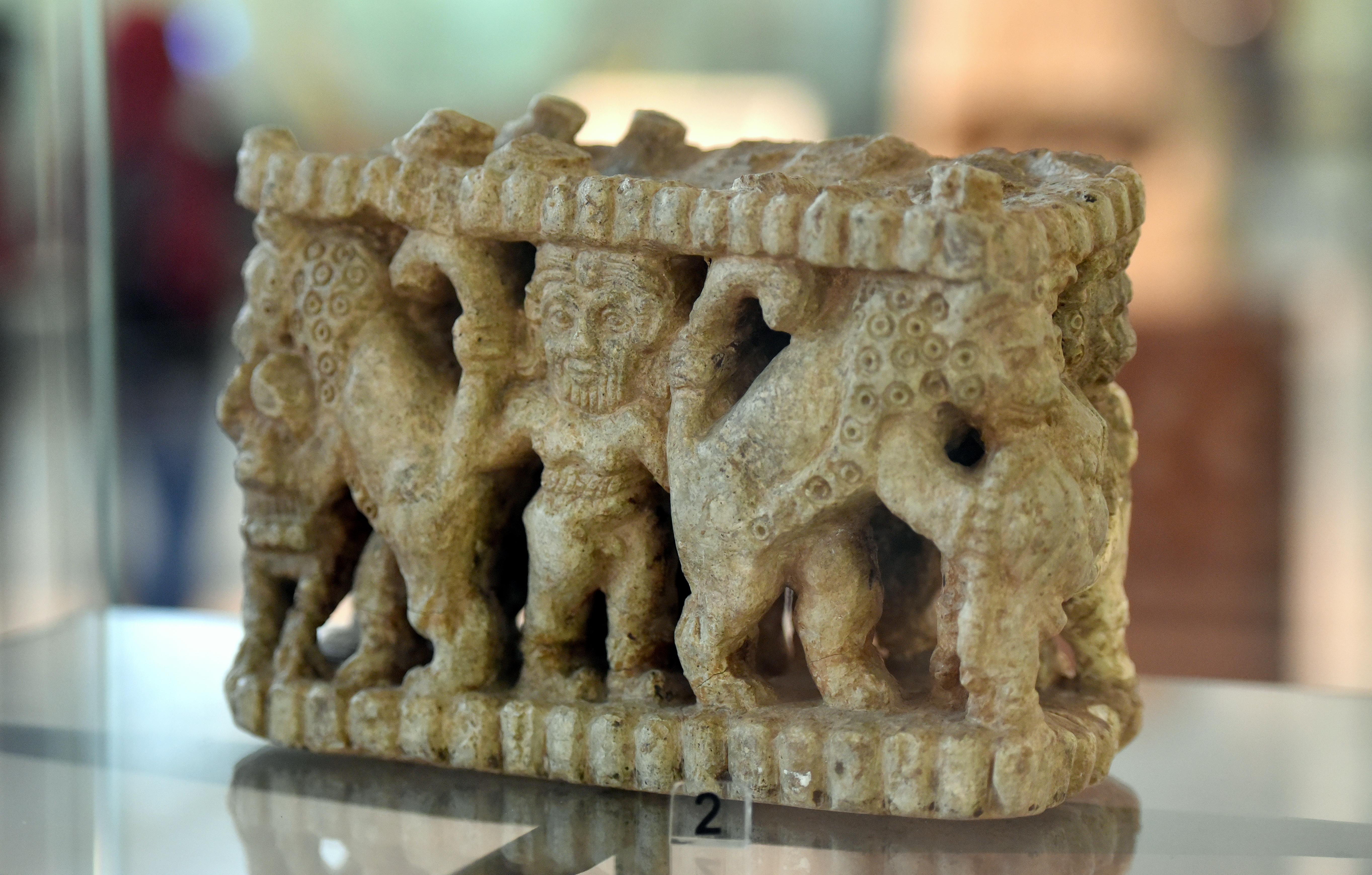 Sculptured vase. This stone piece is carved with a scene depicting Gilgamesh wrestling two bulls. Two lions also appear. From the Shara temple at Tell Agrab, Diyala Region, Iraq. Early Dynastic period, 2600-2370 BCE. On display at the Iraq Museum in Baghdad, Iraq.